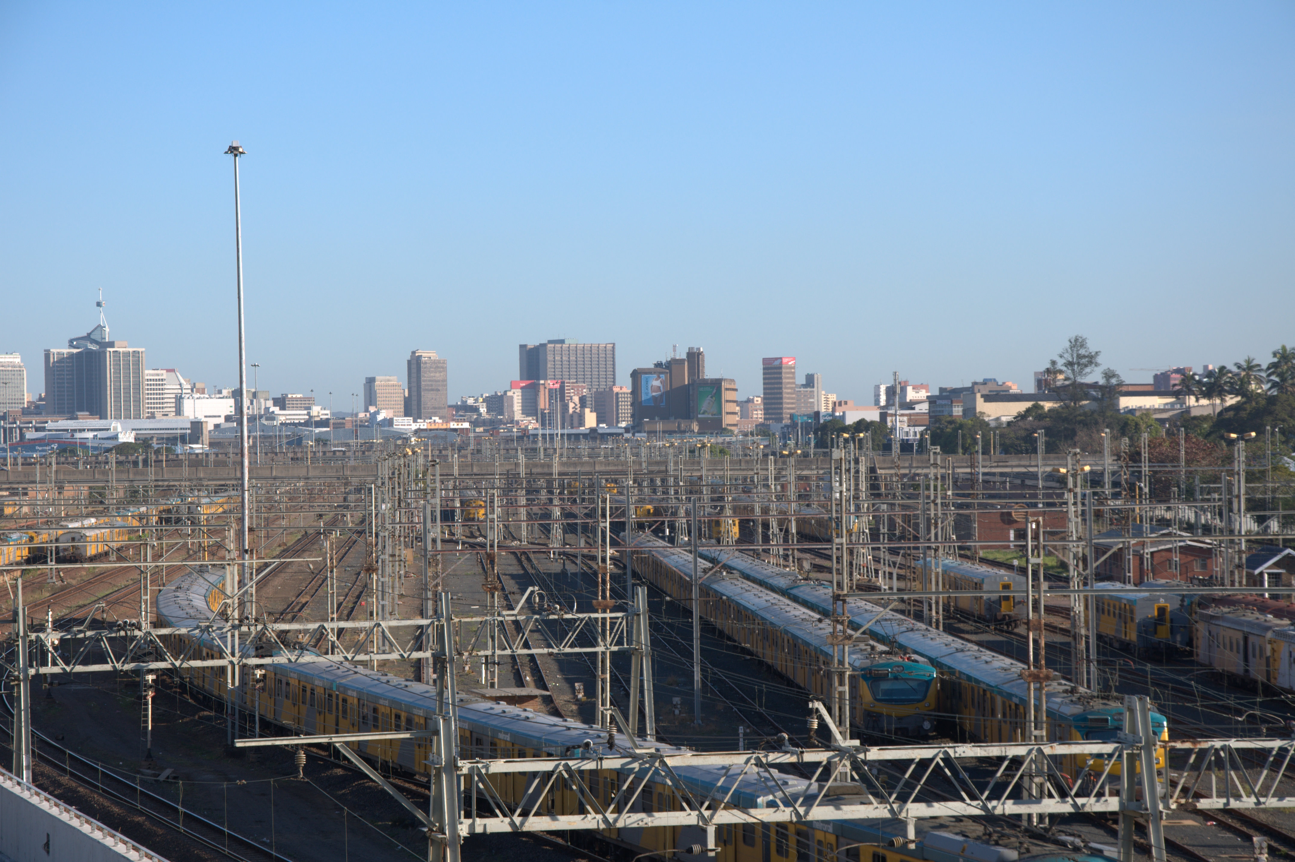 South Africa, Railway station near Moses Mabhida Stadium in Durban